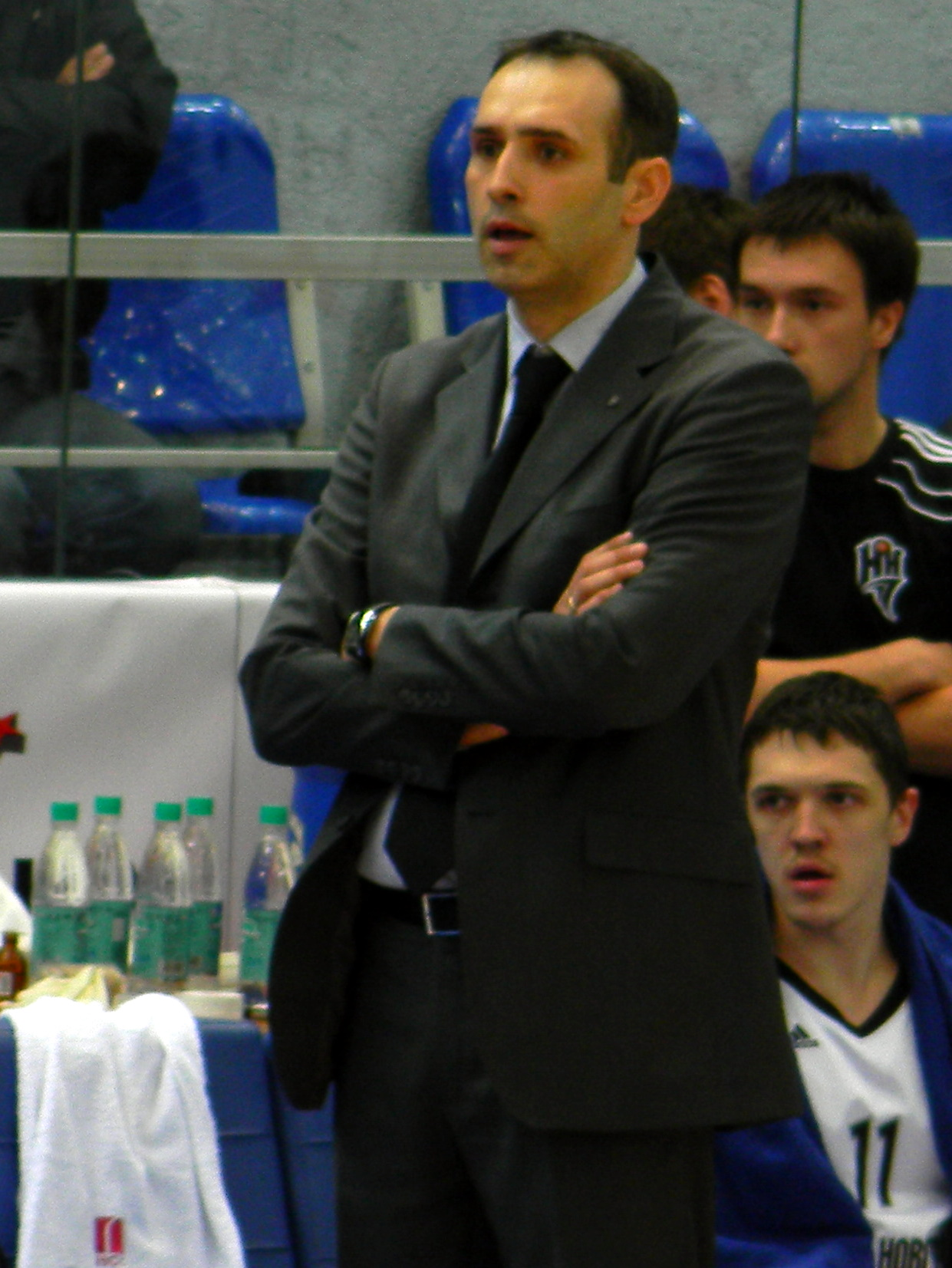 Zoran Lukić, serbian basketball coach from BC Nizhny Novgorod in the game against Spartak Saint-Petersburg on March 19th, 2011